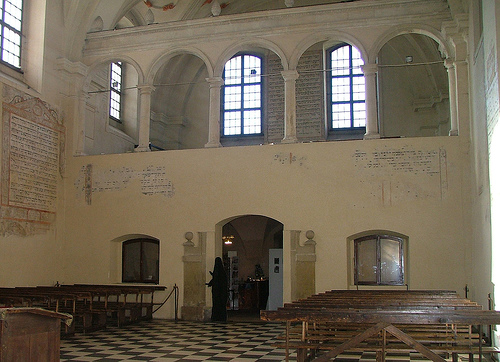 Isaac Synagogue in Kraków